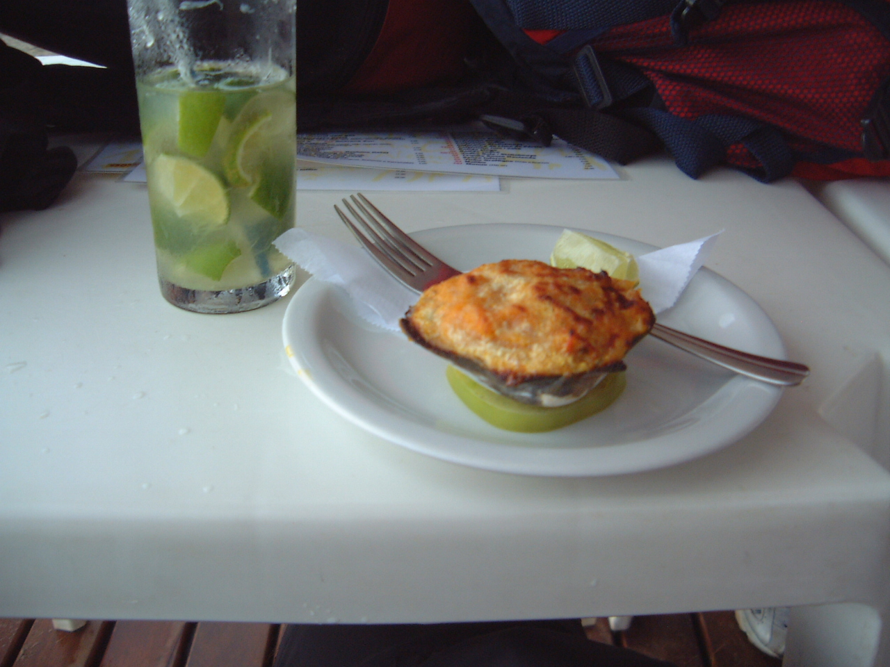 Stuffed crabs